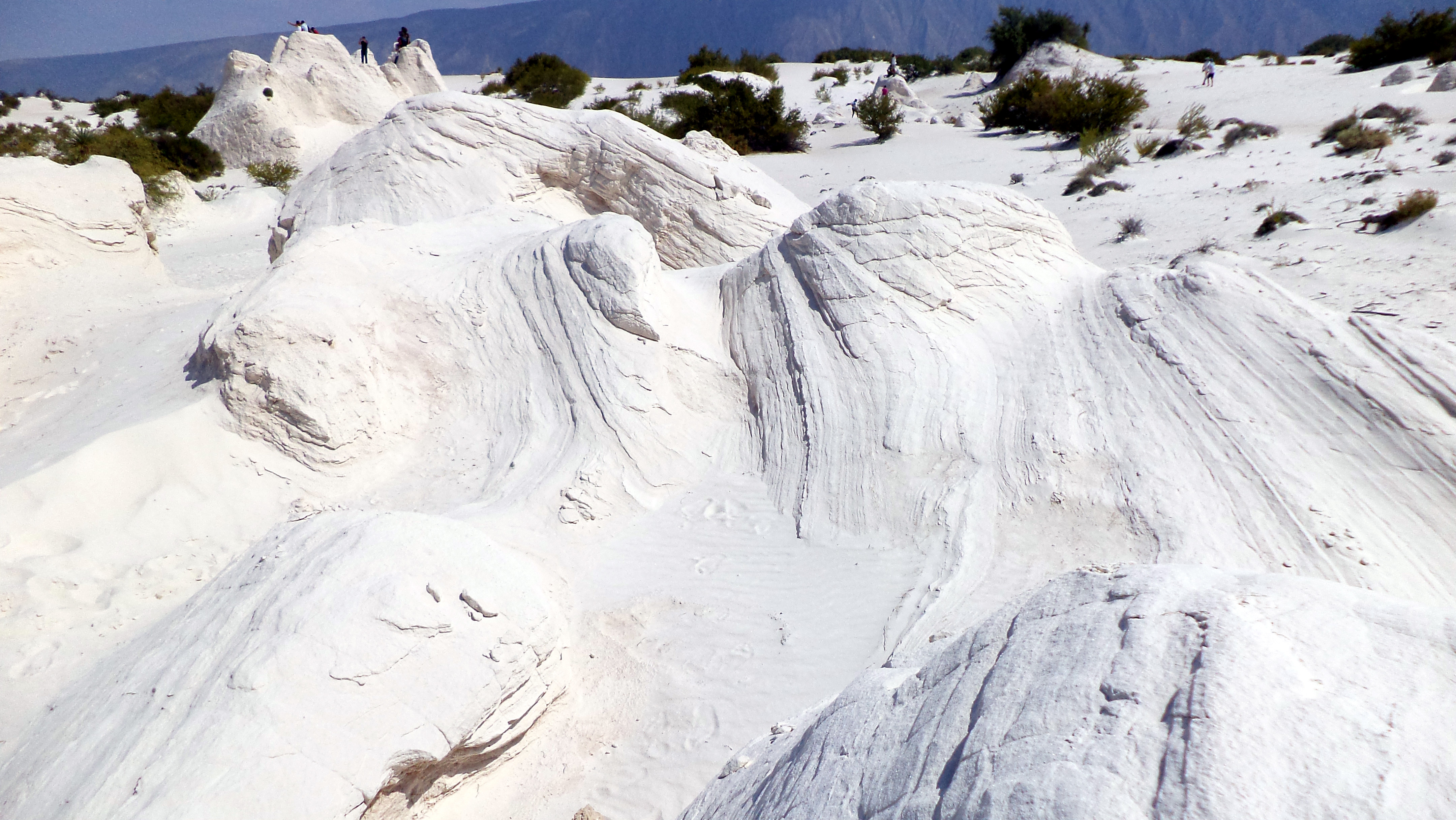 Plaster Dunes also kown as White Dunes in Cuatro Ciénegas, Coahuila, México.